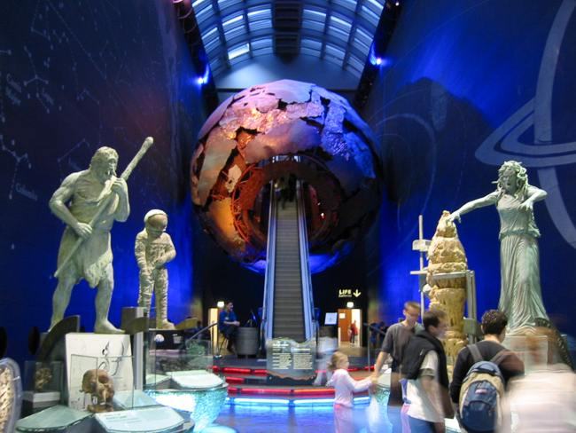 Entrance to the Earth Galleries of the Natural History Museum in London.